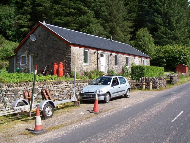 Glendaruel, Dunans Cottage.